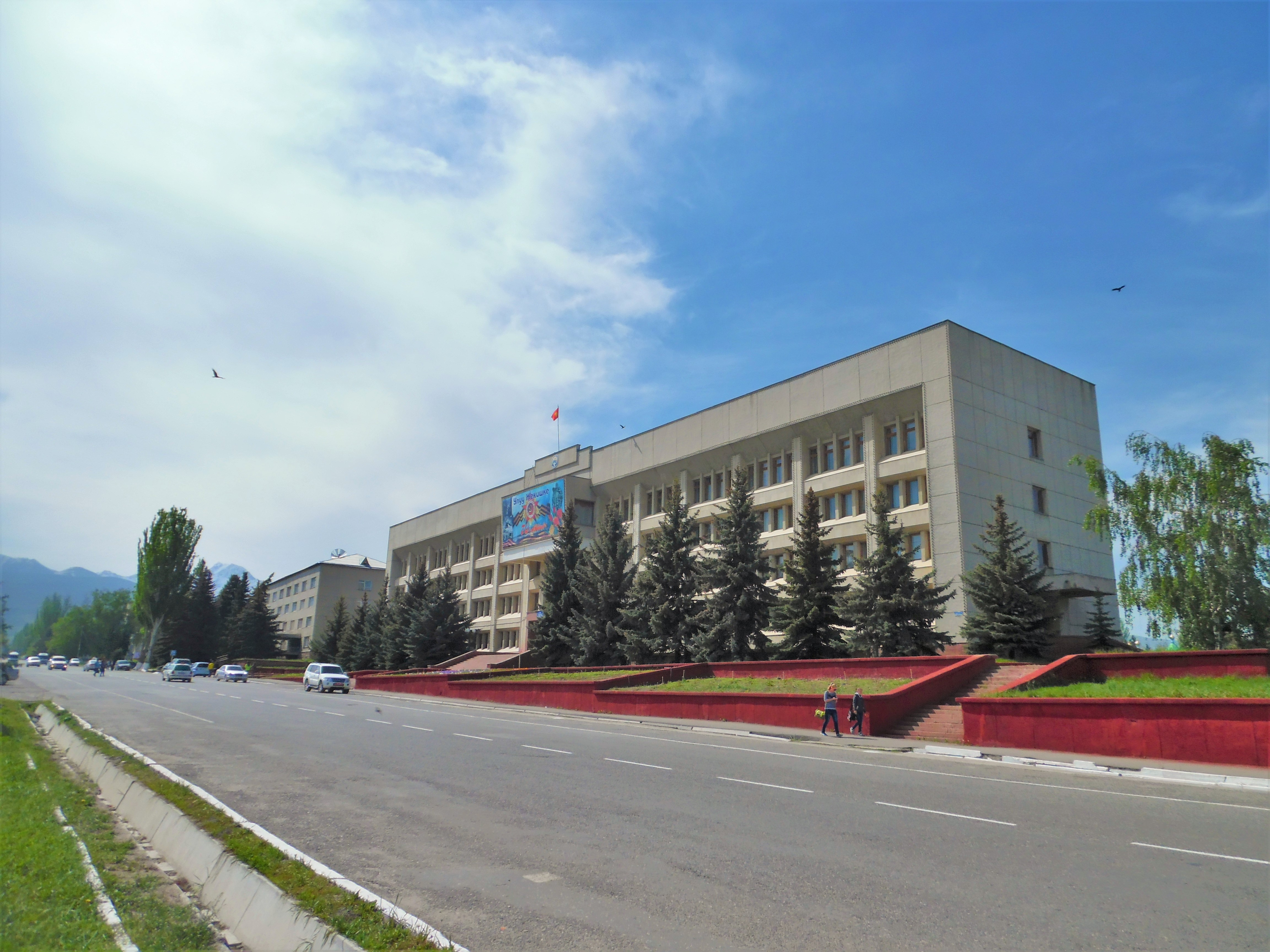 Karakol, regional state administration buildig